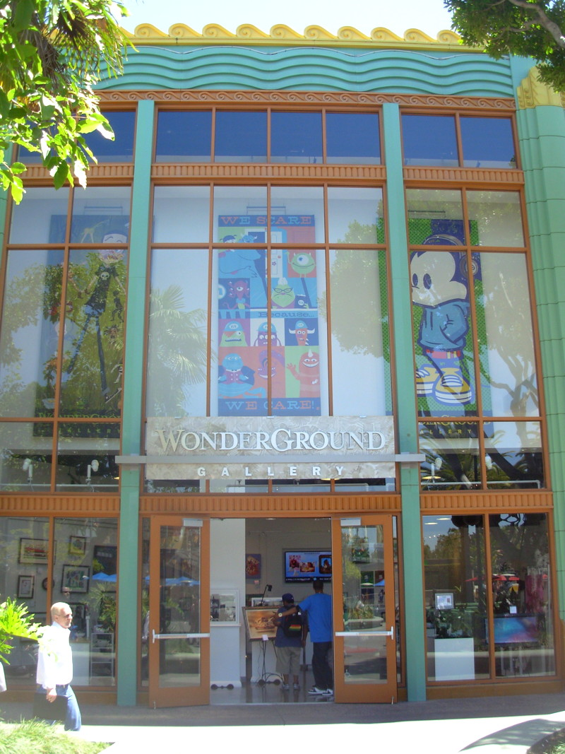 Wonderground Gallery retail store in Downtown Disney, Disneyland resort, Anaheim CA.